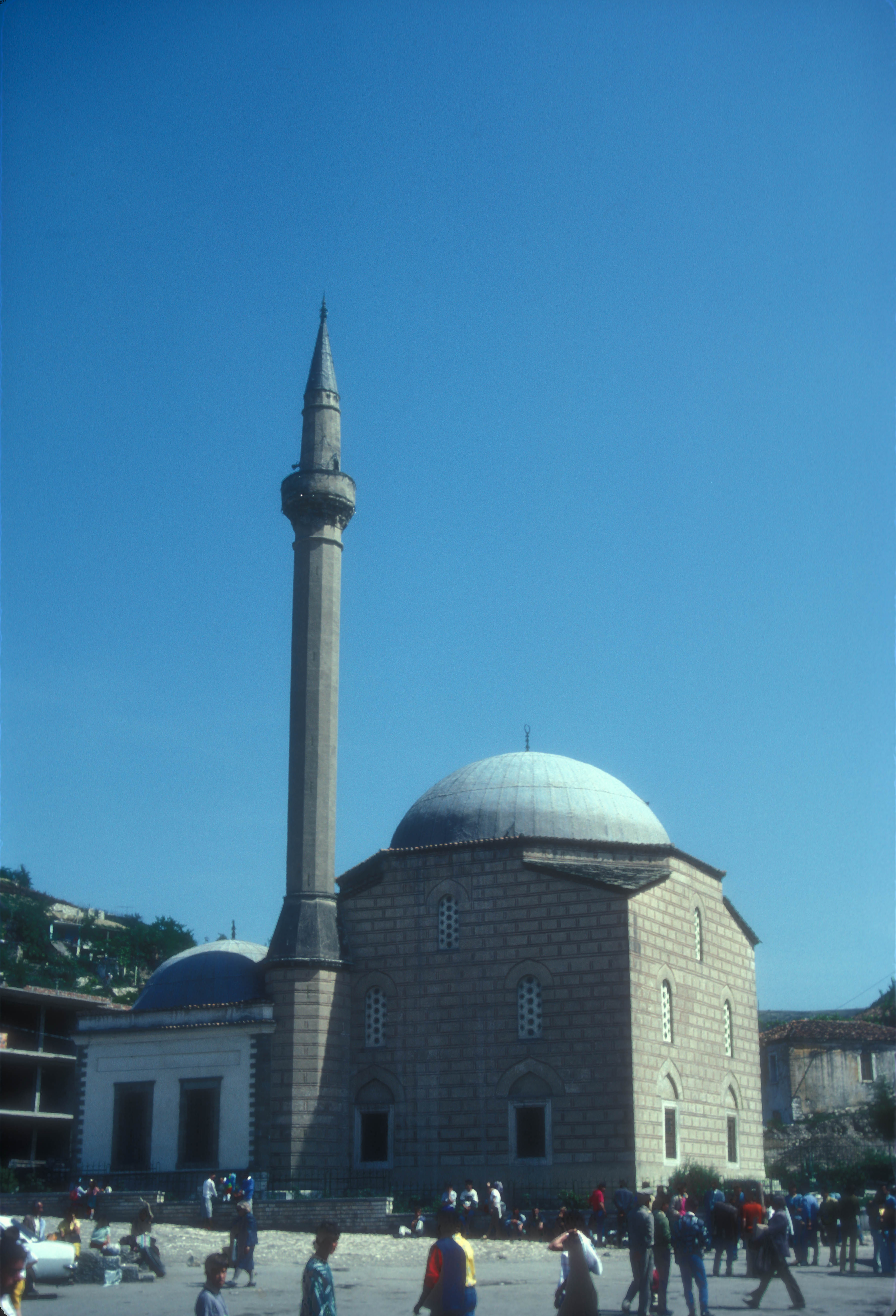 BUILT IN 1555 AND SO-CALLED BECAUSE OF THE LEAD CUPOLA